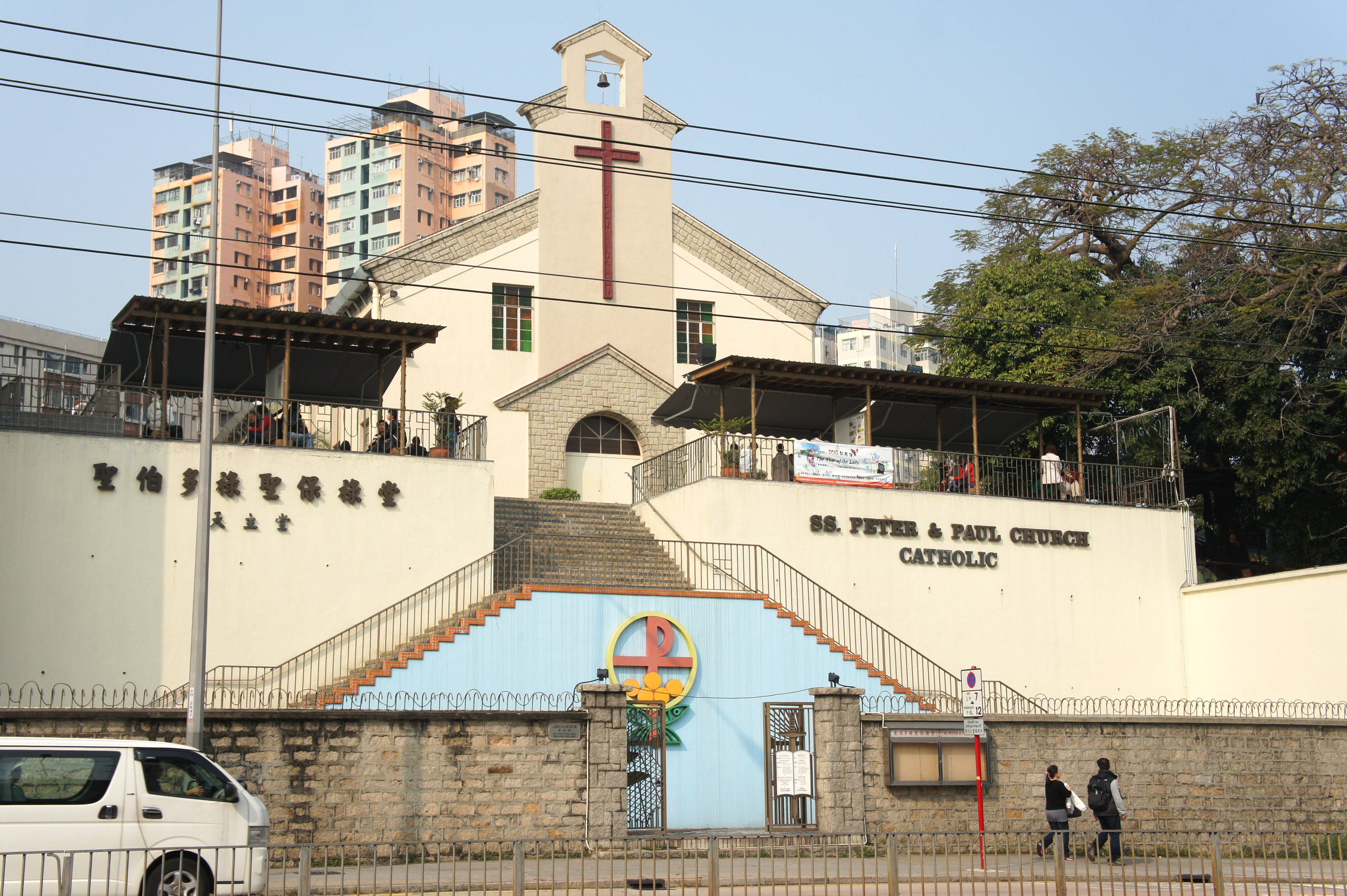 Ss. Peter and Paul Church, Yuen Long, New Territories, Hong Kong.